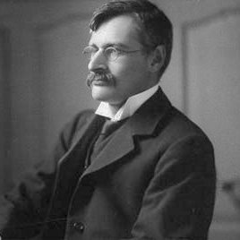 George Macaulay Trevelyan (1876-1962)